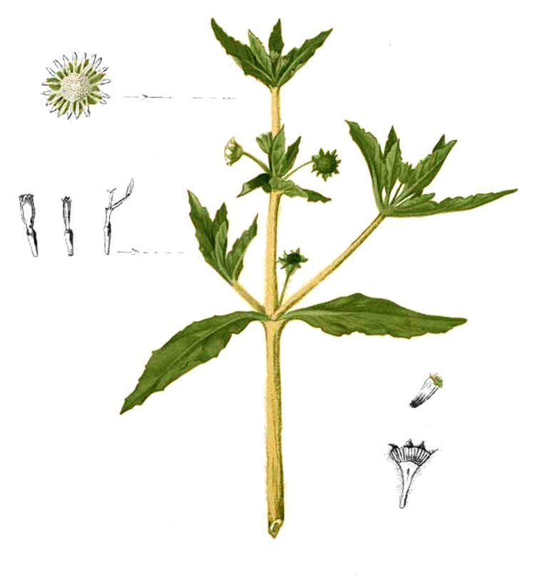 Artemisia viridis, Plate from book